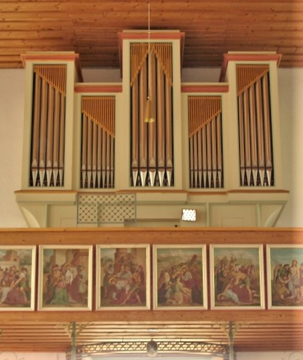 Organ in Neufarn, Bavaria